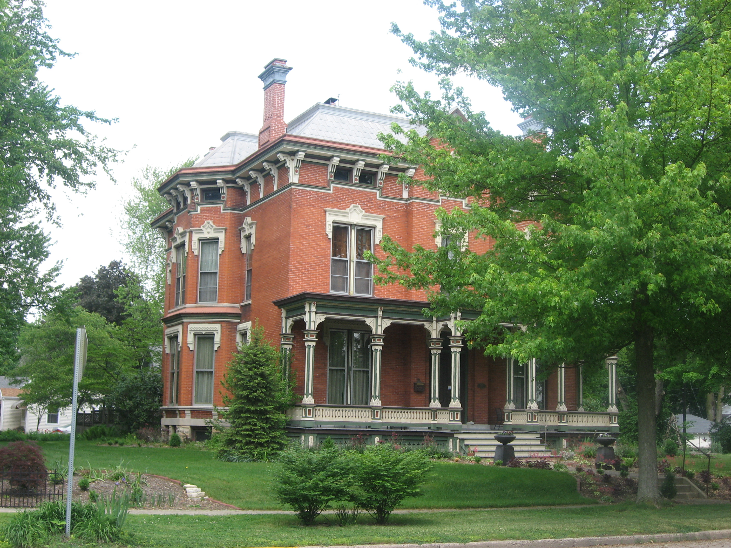 Front and western side of the Noftzger-Adams House, located at 102 E. Third Street in North Manchester, Indiana, United States. Built in 1880, it is listed on the National Register of Historic Places, and it is part of a Register-listed historic district, the North Manchester Historic District.